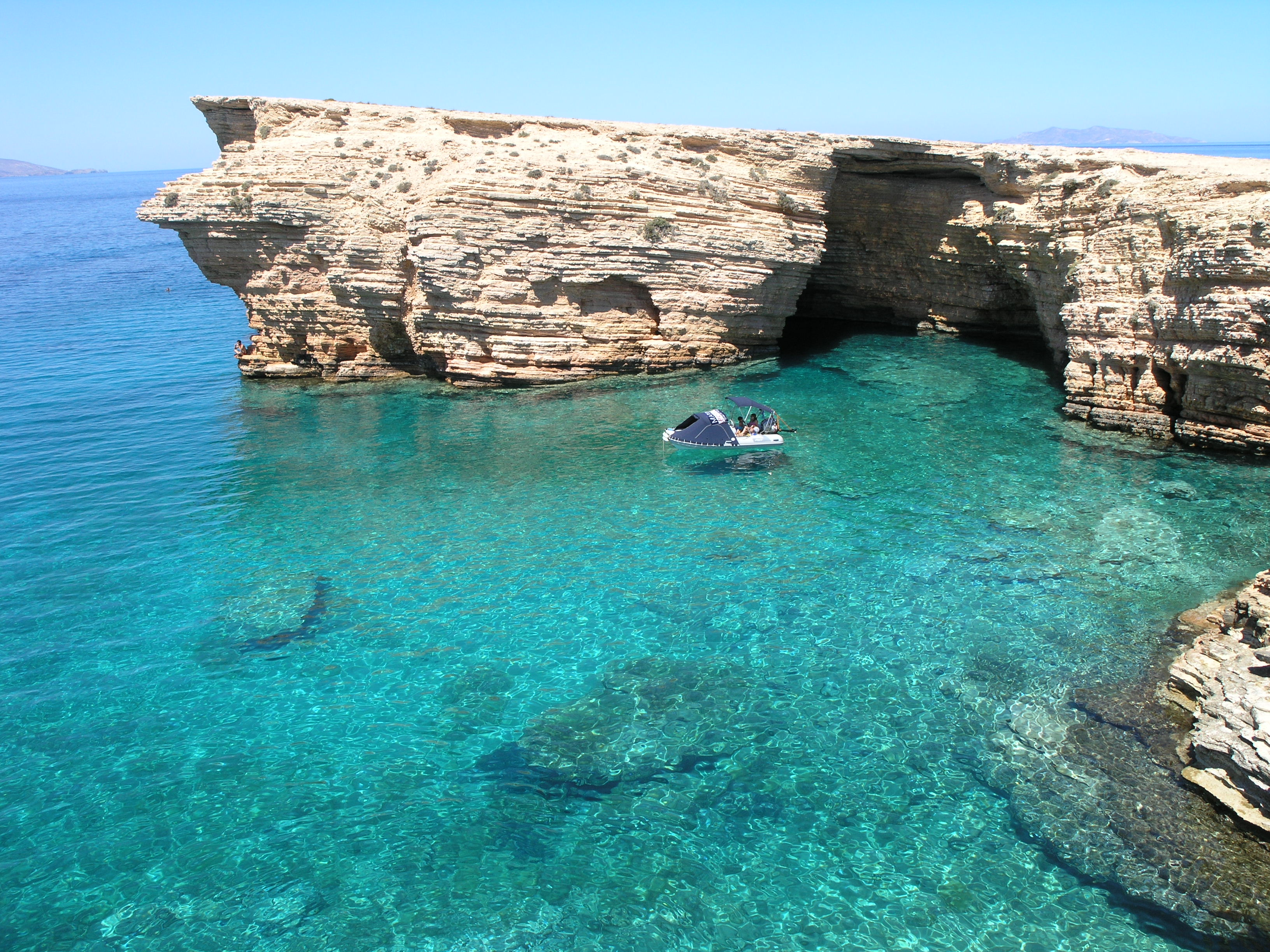 Pori, Pano Koufonisi, Cyclades, Greece